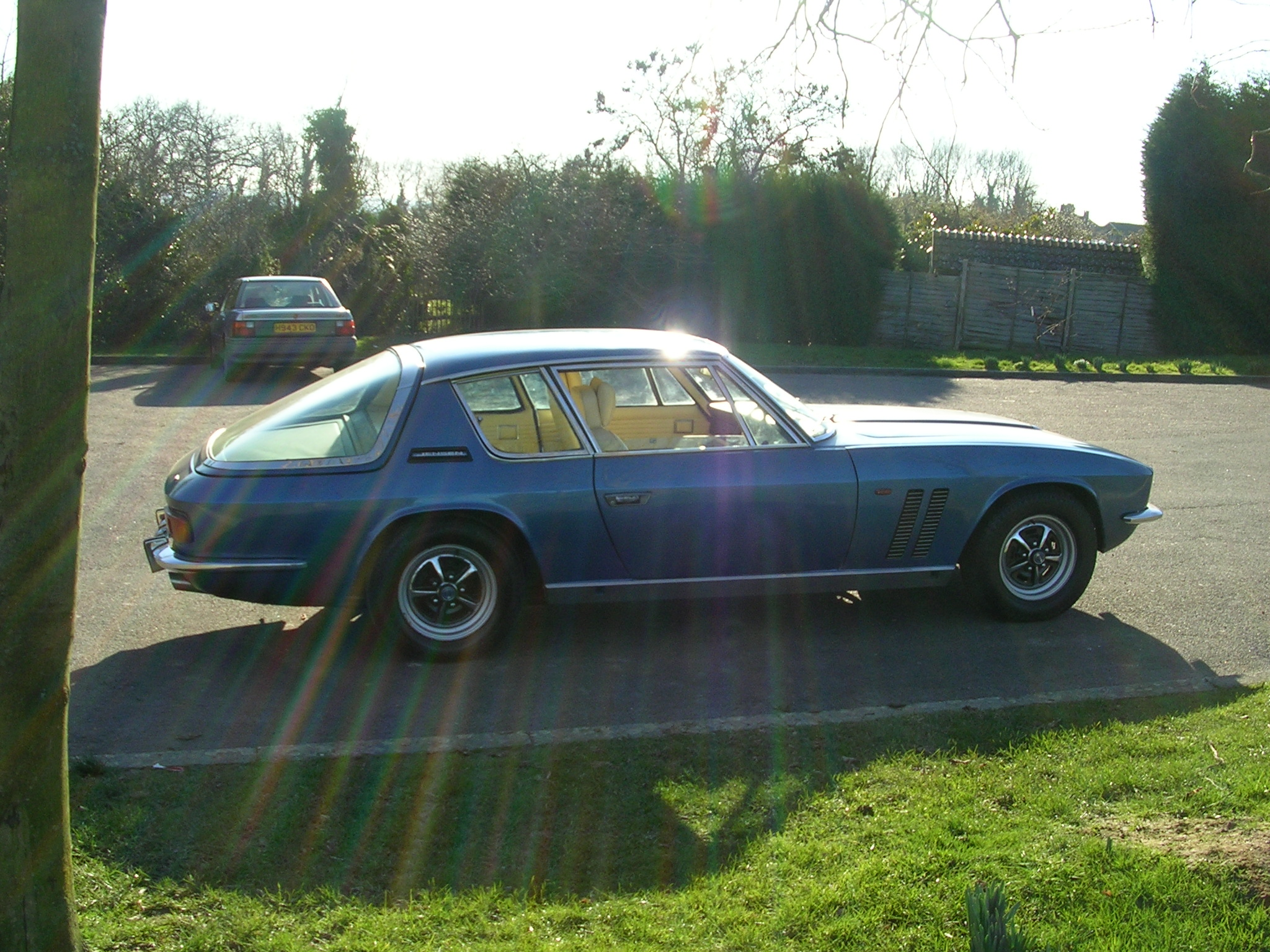 1970 Jensen FF MK11